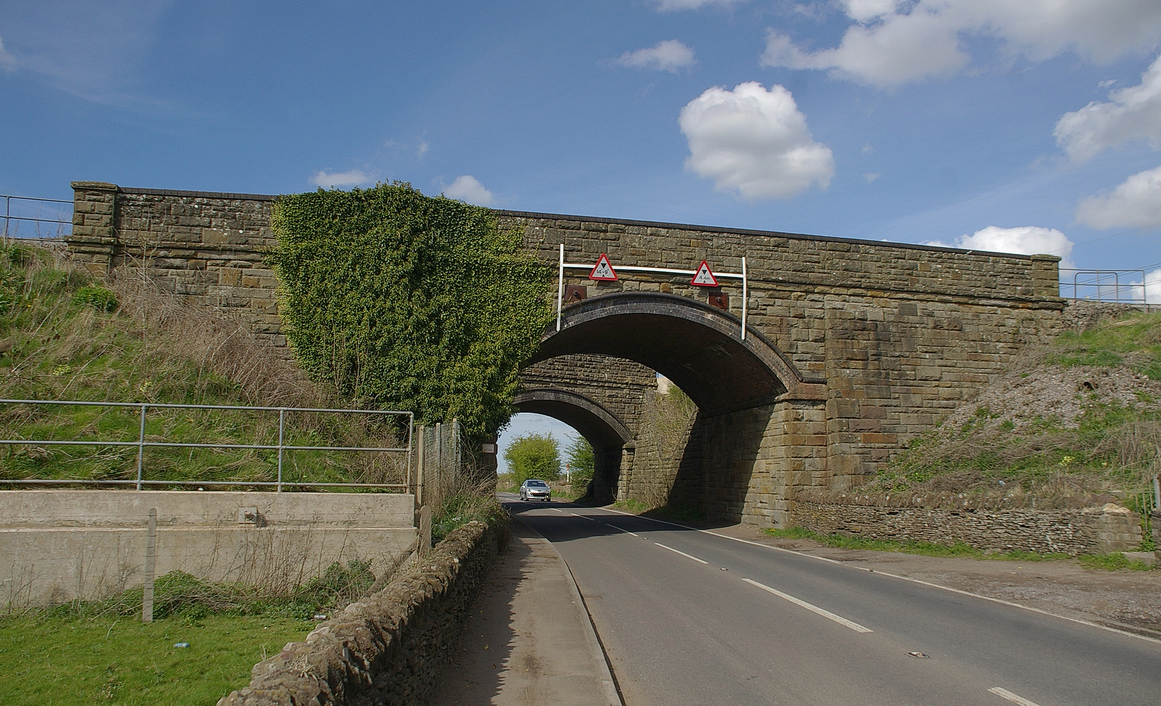 The bridges at Westerleigh Junction.